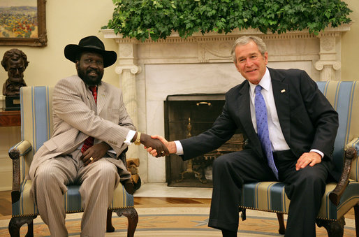 President George W. Bush meets with Salva Kiir, First Vice President of the Government of National Unity of the Republic of the Sudan and President of the Government of Southern Sudan, Thursday, Nov. 15, 2007, in the Oval Office.